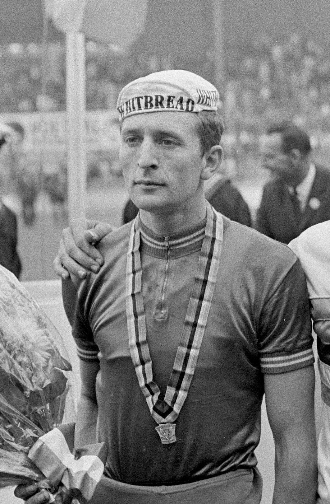 WK Wielrennen op de baan Amsterdam. Ceremonie Tiemen Groen